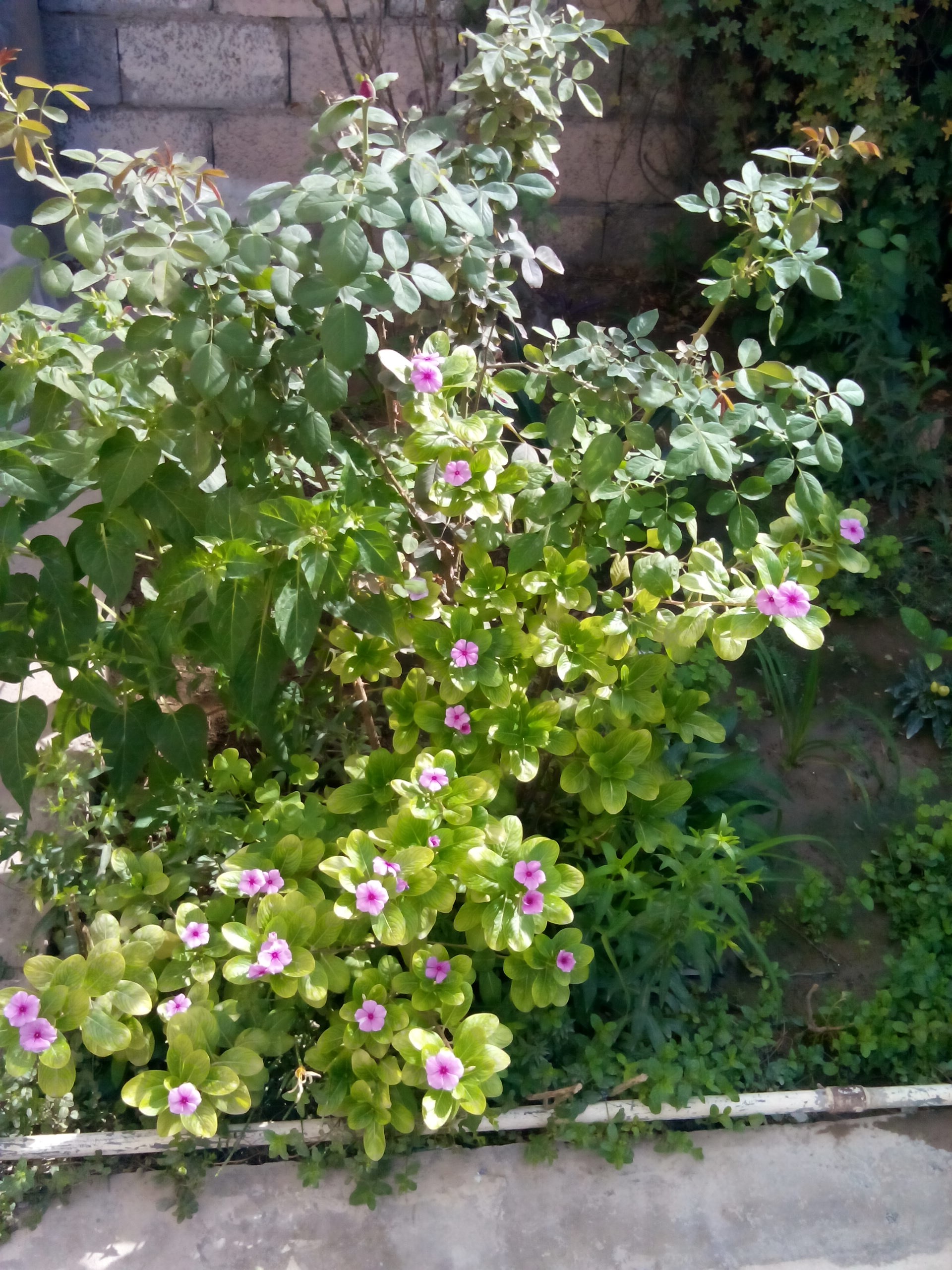 Flower's in the garden in Baghdad, Iraq